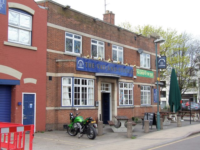 The Vat and Fiddle, Nottingham The pub has good reviews. It stands next door to the Castle Rock Brewery, so should never run dry.